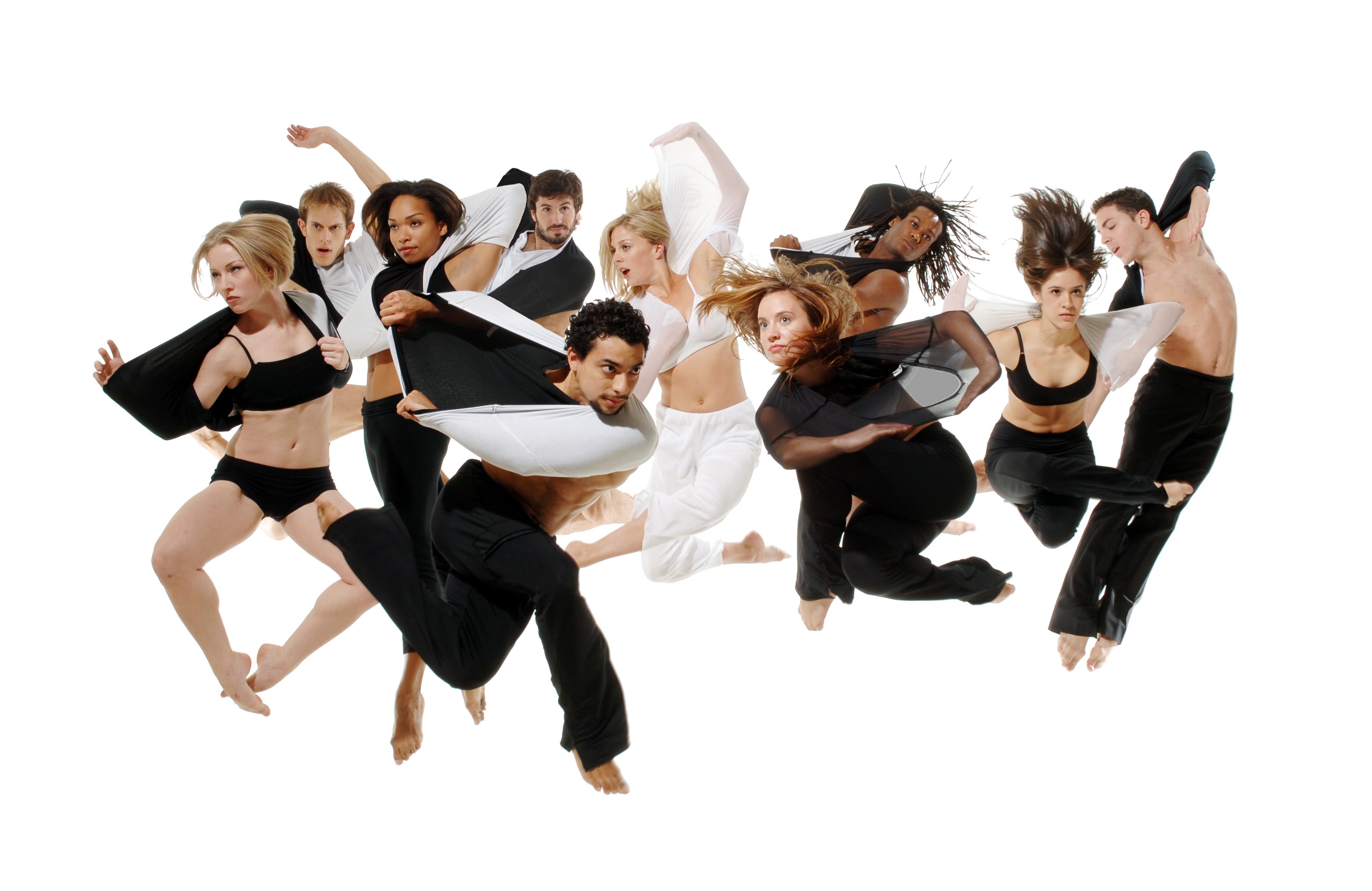 Photographed by David Parsons. Parsons Dancers in "Peel." 2006.